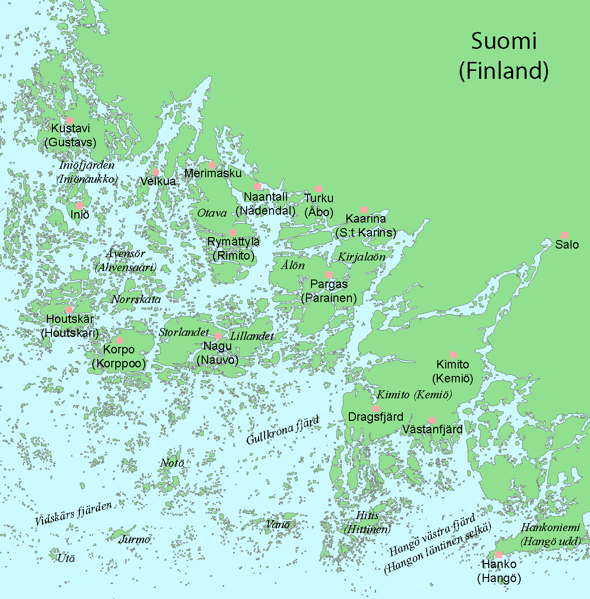 Saaristomeri / Skärgårdshavet / Archipelago Sea Source: Self-made, January 6th 2007 Author: BishkekRocks